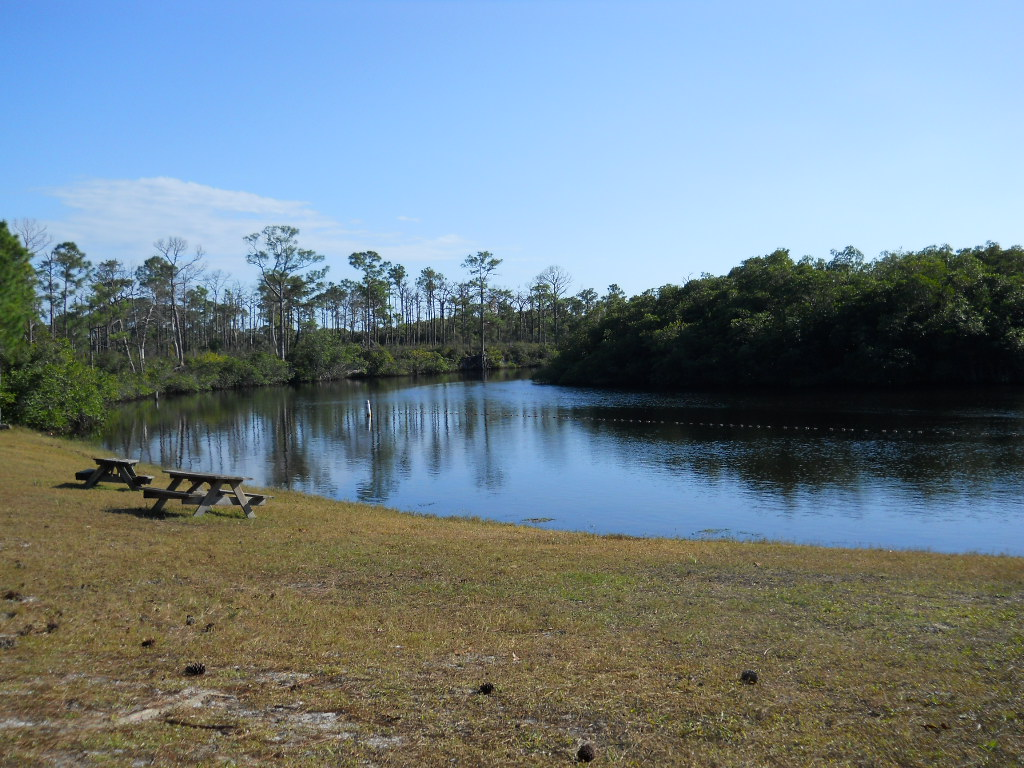 Jonathan Dickinson State Park, swimming area on the Loxahatchee River, Martin County, Florida